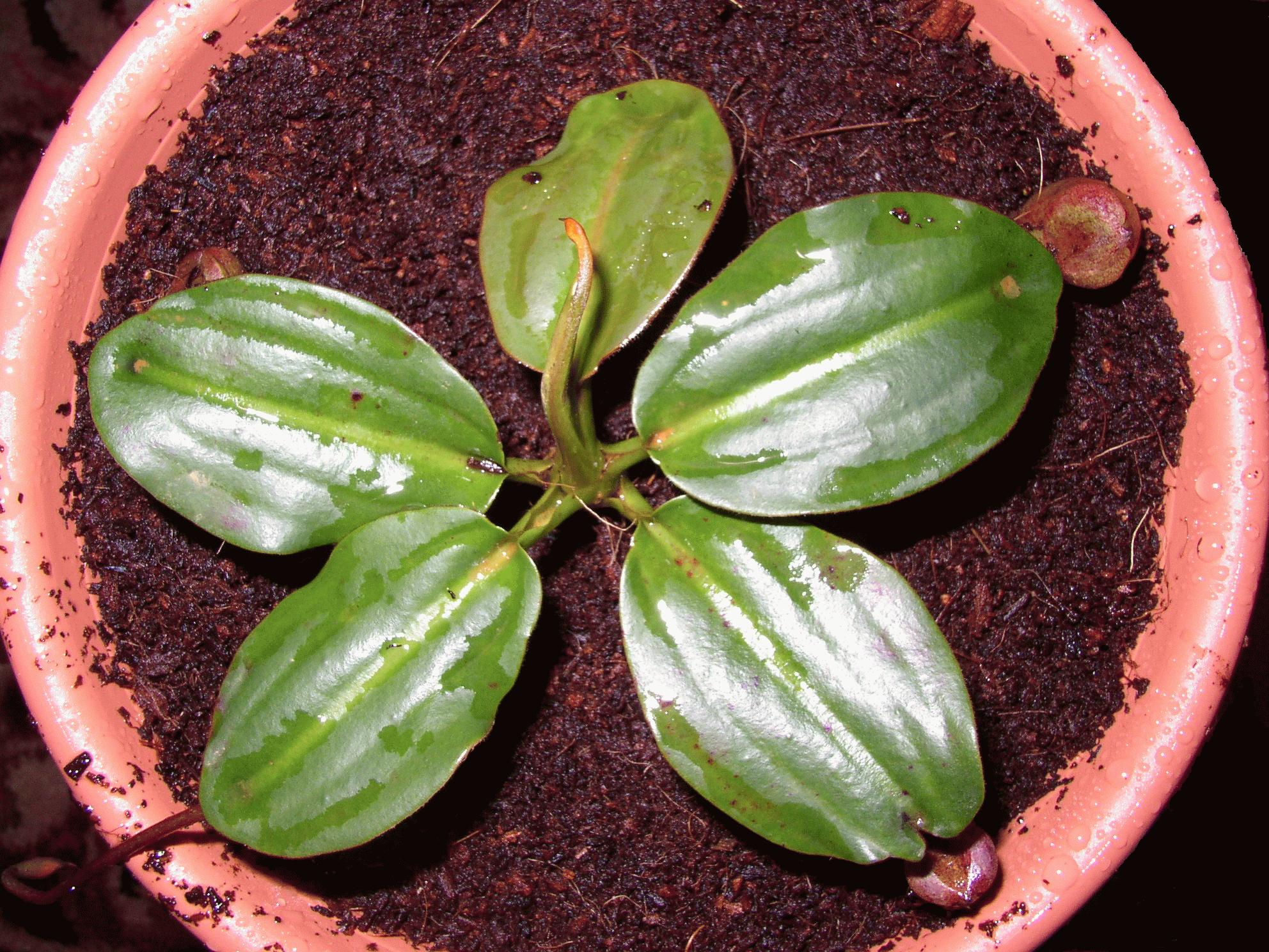 Cultivated plant of Nepenthes rajah.